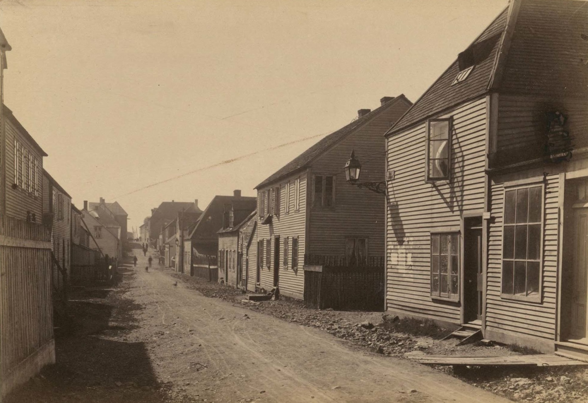 Titre : [42 phot. de Saint-Pierre et Miquelon, de Cap-Breton, de Terre-Neuve, du Labrador, par Julien Thoulet, donateur en 1887] Auteur : Thoulet, Julien (1843-1936). Photographe. Donateur Date d'édition : 1887 Sujet : Canada Sujet : Arctique Sujet : Saint Pierre et Miquelon, Îles Sujet : Cap-Breton, Île du Sujet : Terre-Neuve, Île de Sujet : Labrador, Péninsule du Type : image fixe,photographie Langue : Français Format : 42 phot. Format : image/jpeg Droits : domaine public Identifiant : ark:/12148/btv1b6700402k Source : Bibliothèque nationale de France, département Société de Géographie, SGE SG WF-79 Relation : Couverture : Arctique Couverture : Saint-Pierre-et-Miquelon (France) Couverture : Canada – Terre-Neuve Provenance : bnf.fr